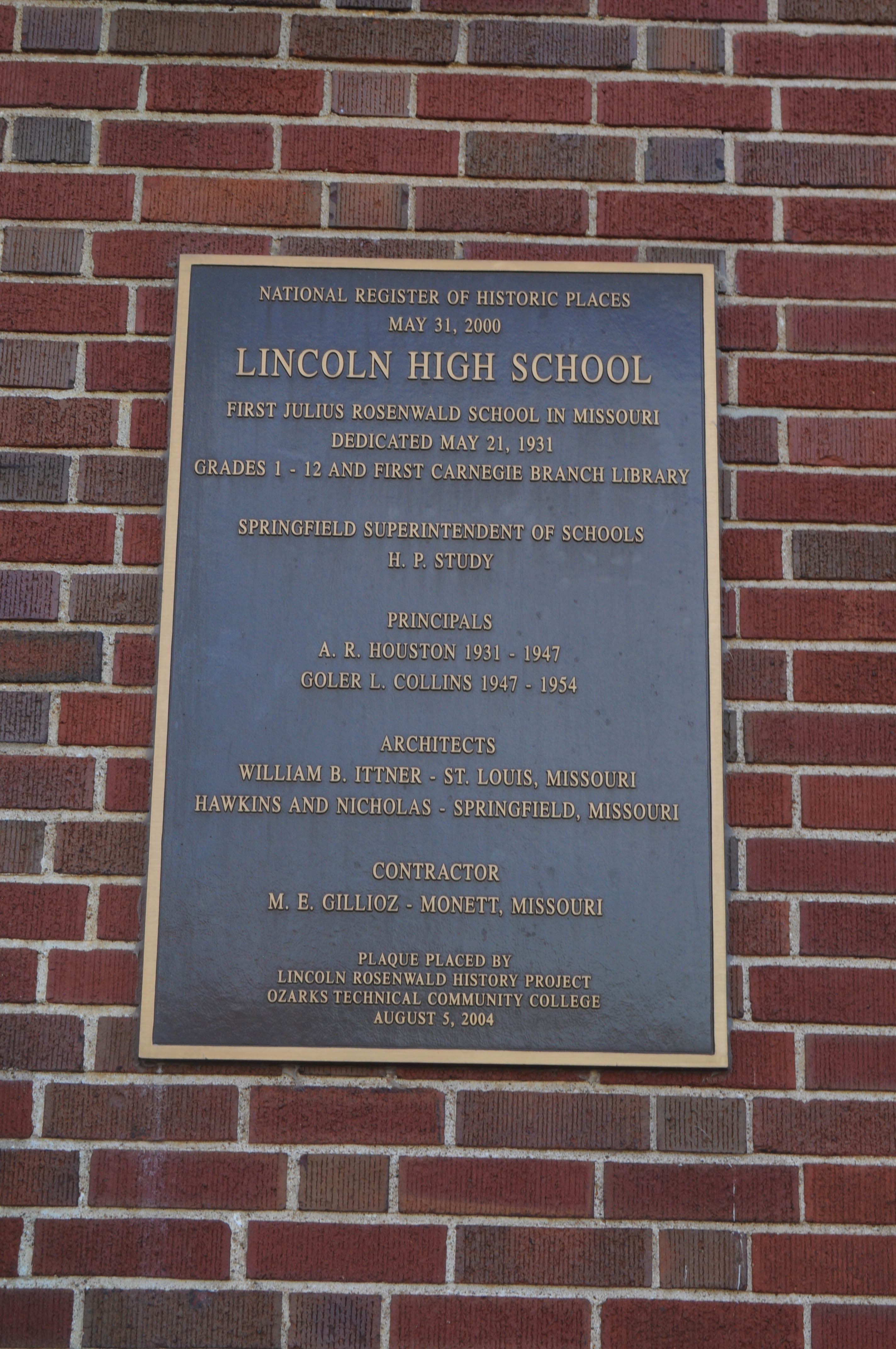 Historical plaque of the